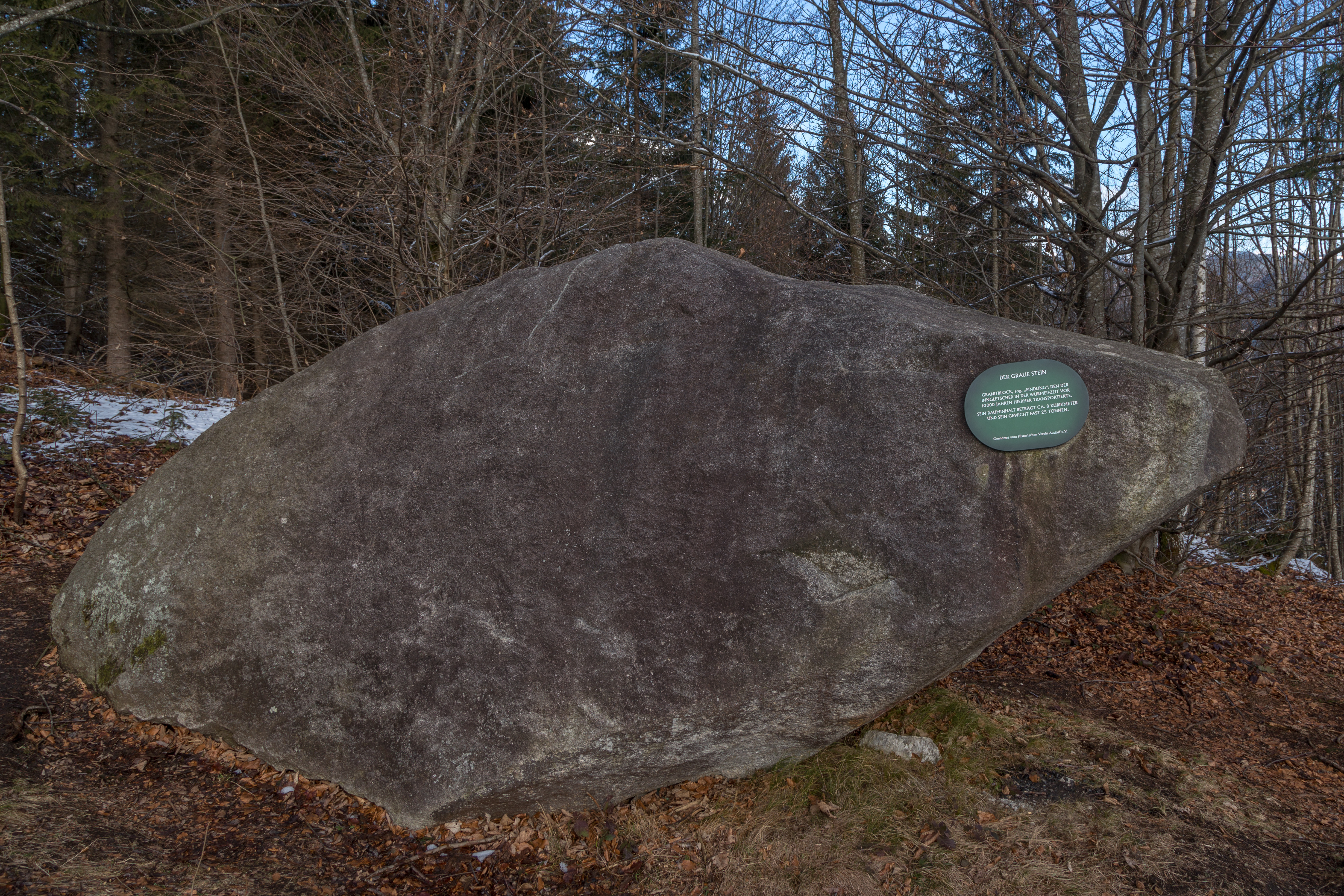 The glacial erratic "Grauer Stein" ("grey stone") near Oberaudorf in Landkreis Rosenheim.